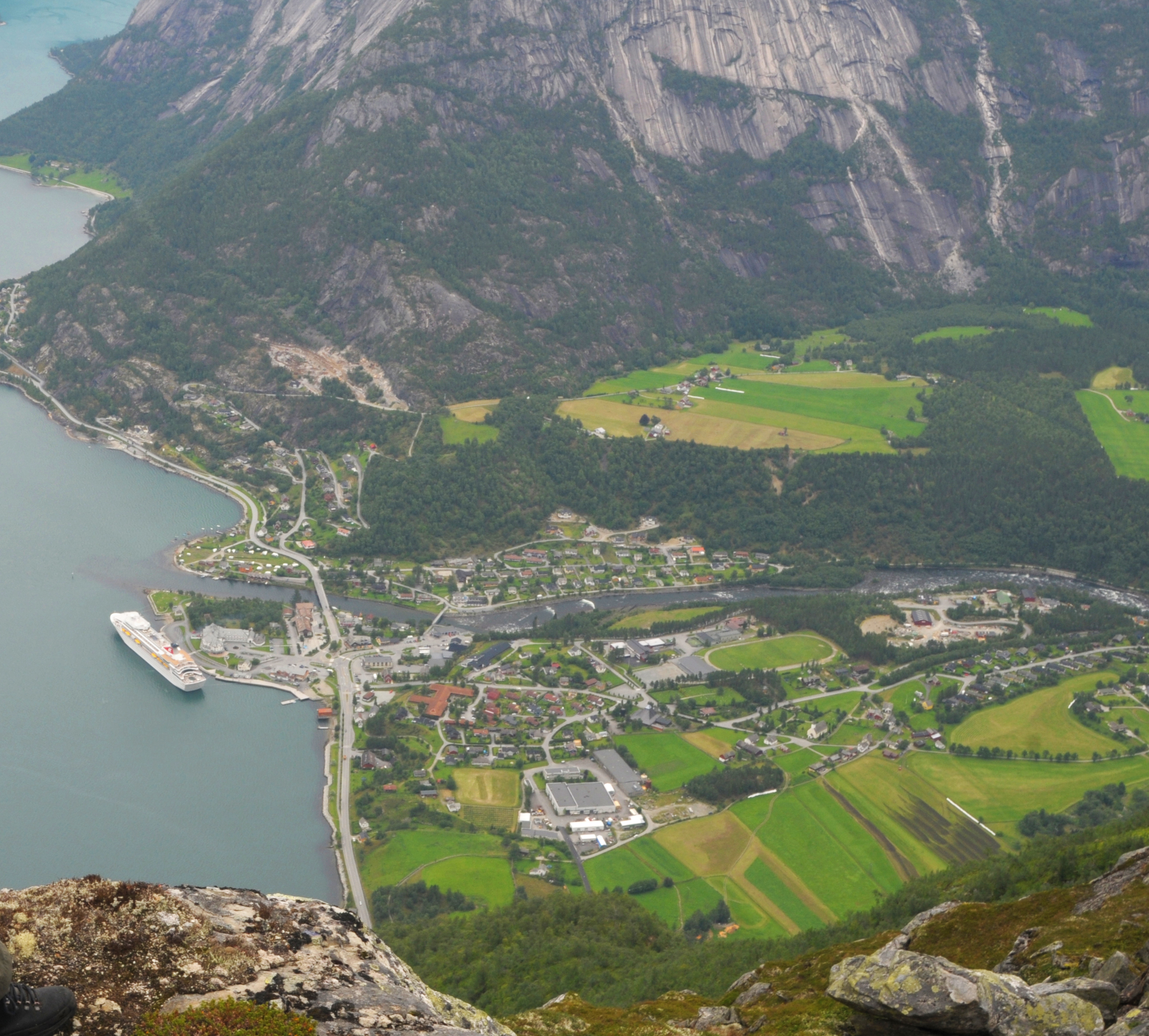 View from Øktanuten, Agurtxane Concellon, 2009, Øktanuten Eidfjord.